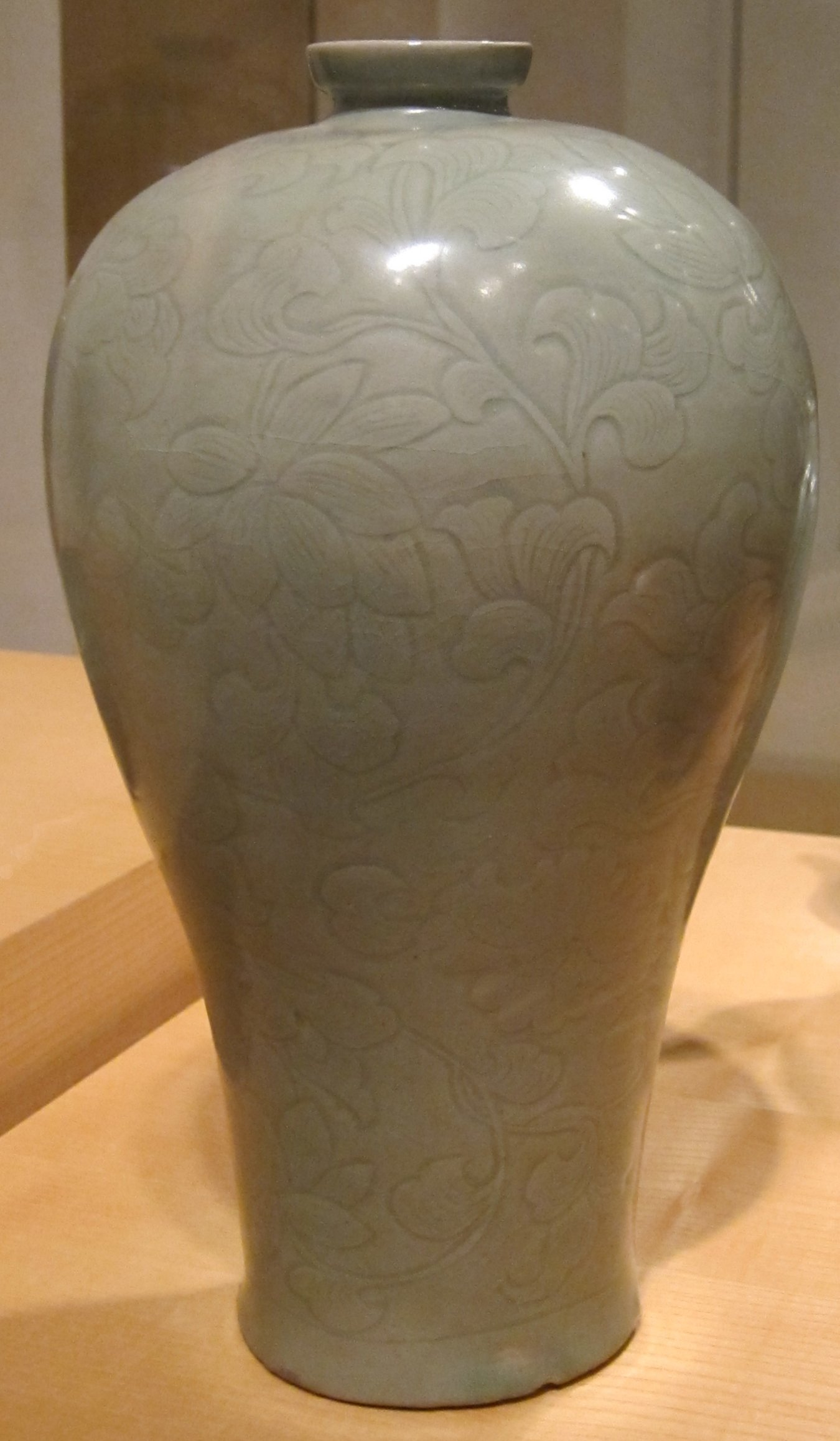 Korean plum blossom vase (maebyŏng), Goryeo dynasty, late 11th-early 12th century, stoneware with celadon glaze, Honolulu Museum of Art accession 3712.1